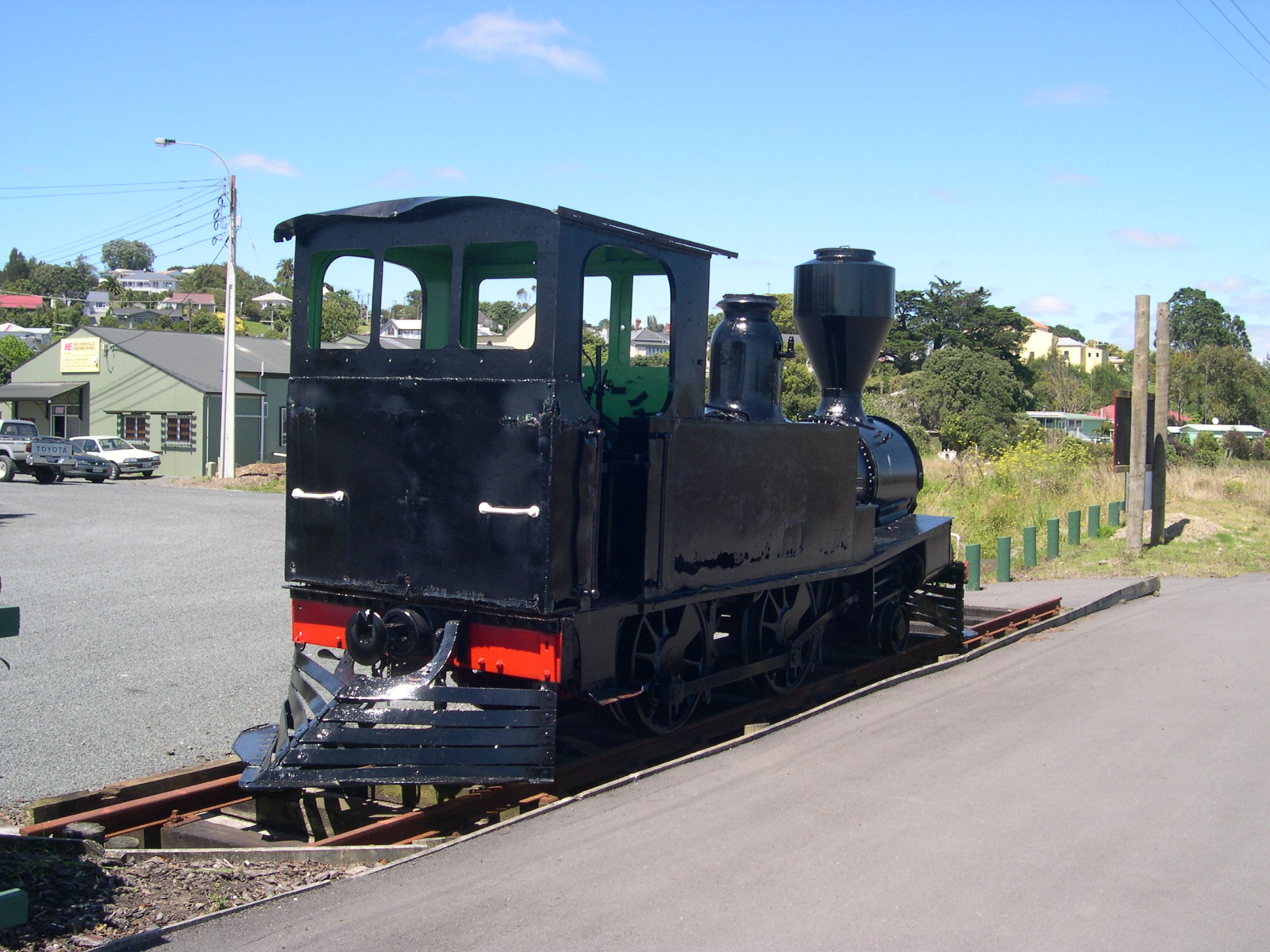 Steam locomotive in Helensville station, North Island, New Zealand, type D Class No 170, build 1880 by Neilson & Son, Glasgow Scotland